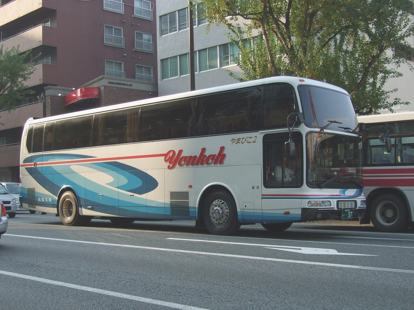 "Yamabiko 2", Shikoku Kotsu(Yonkoh) chartered bus